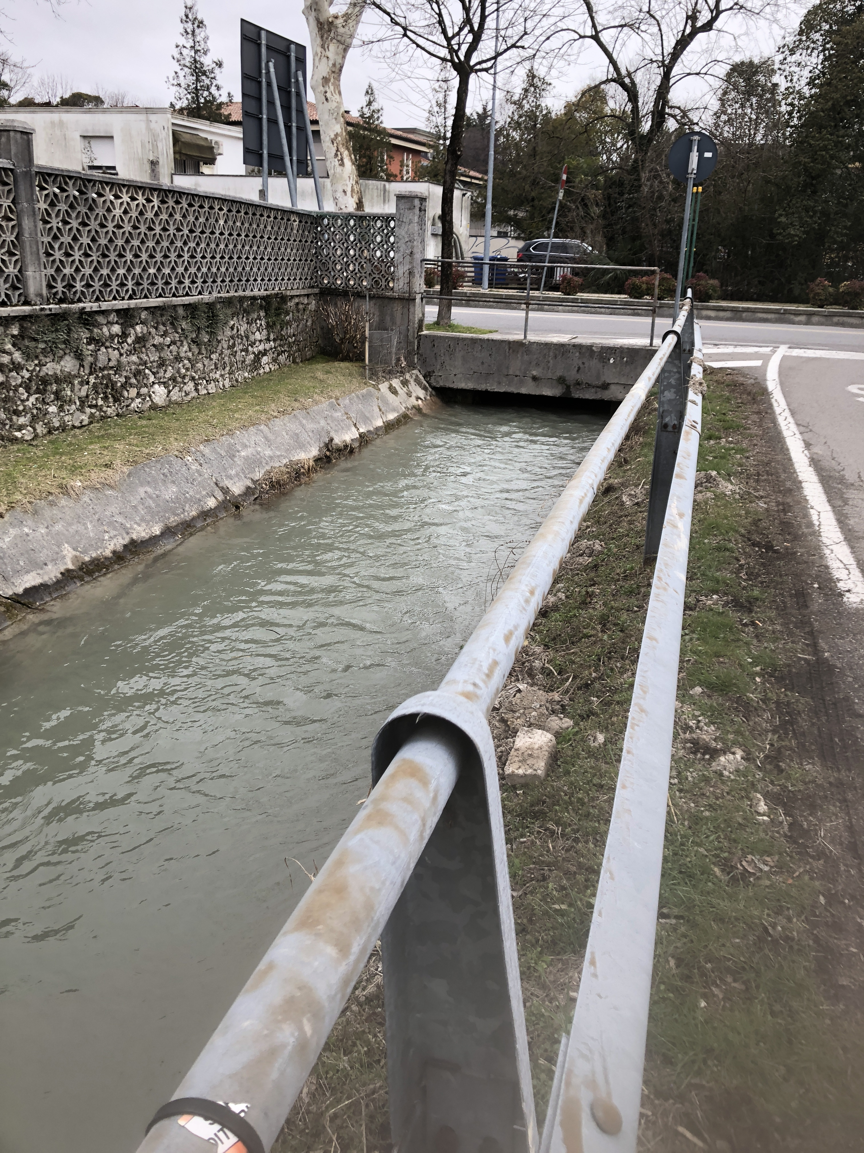 Canale S. Gottardo 2